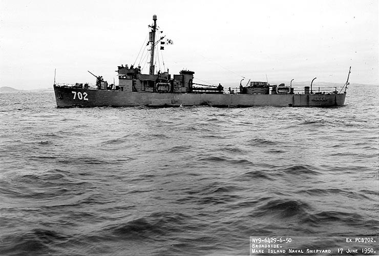 Photo #: NH 85482 Kum Kang San (South Korean submarine chaser, formerly USS PC-799) Off the Mare Island Naval Shipyard, 17 June 1950, following transfer to the South Korean Navy. Official U.S. Navy Photograph, from the collections of the Naval Historical Center.